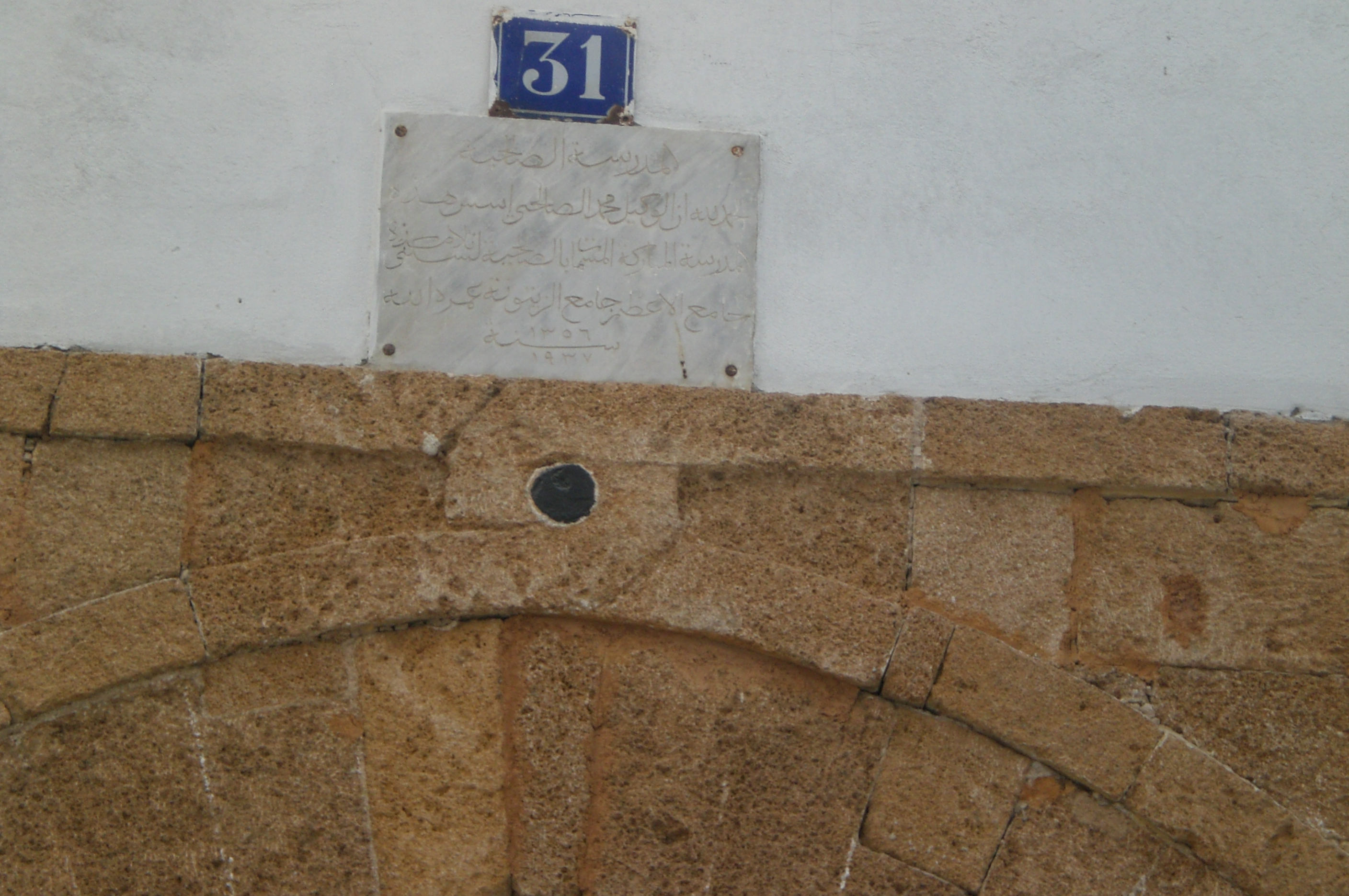 Inscription of Medersa Salhia in Tunis